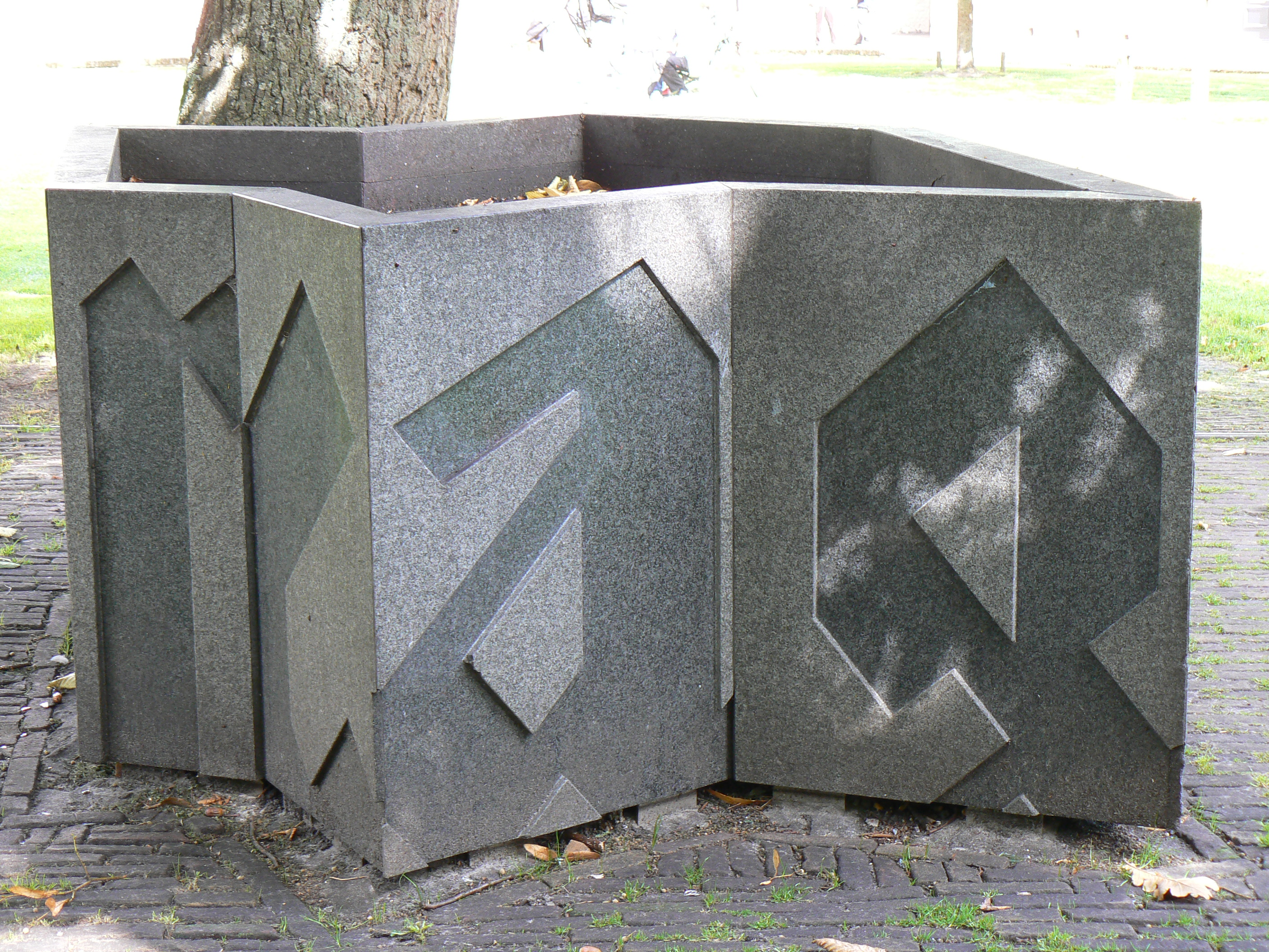 sculpture (1990) by Paul Virilio in Groningen/The Netherlands